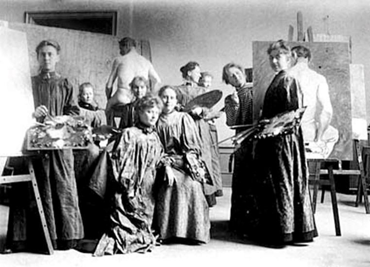 Female art students at the Royal Swedish Academy of Fine Arts' model school, Stockholm, Sweden, in the 1890s. The photographer is unknown.